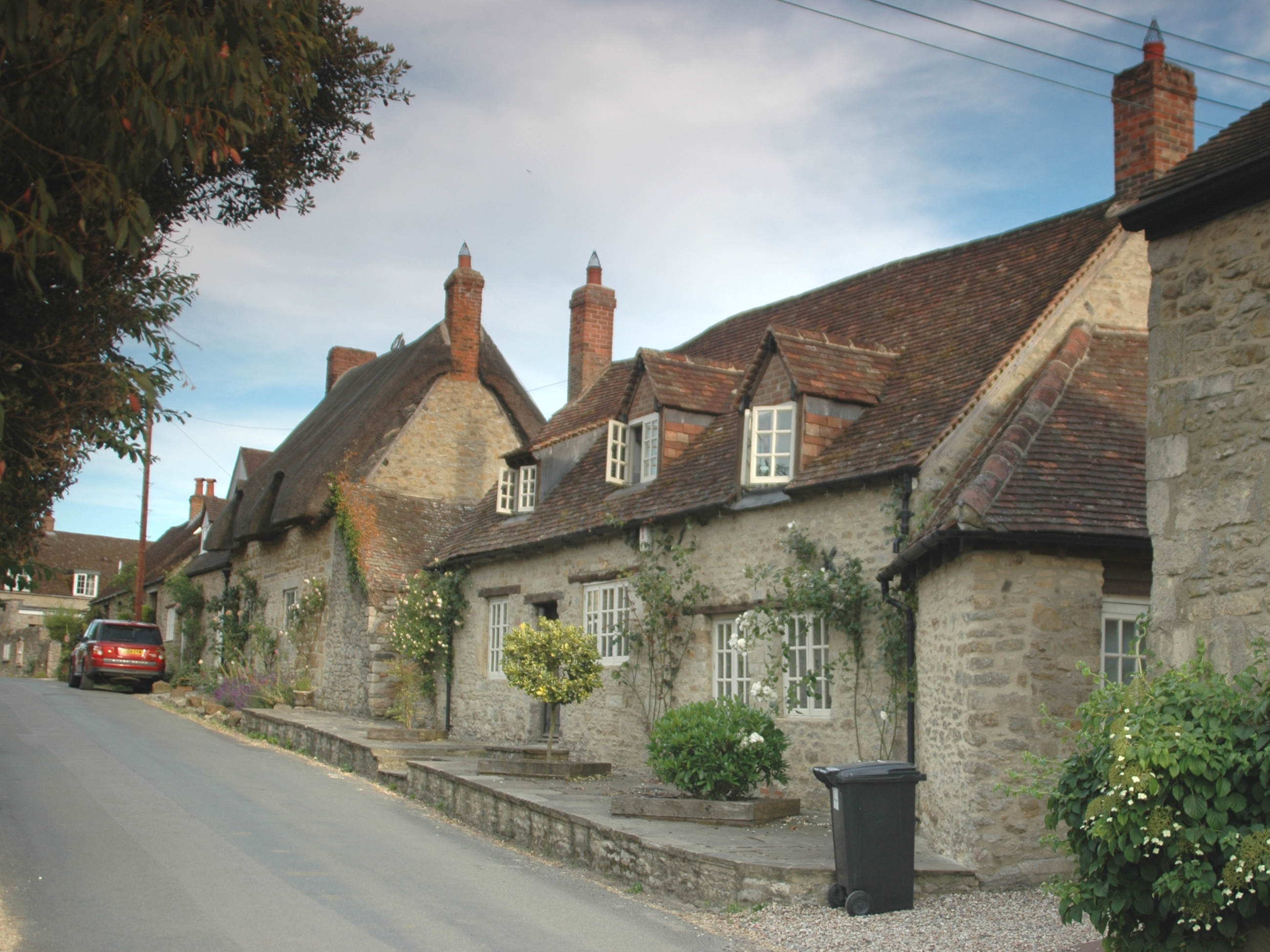 One and a half storey vernacular cottages of local rubblestone in Beckley, Oxfordshire, including one with a thatched roof.